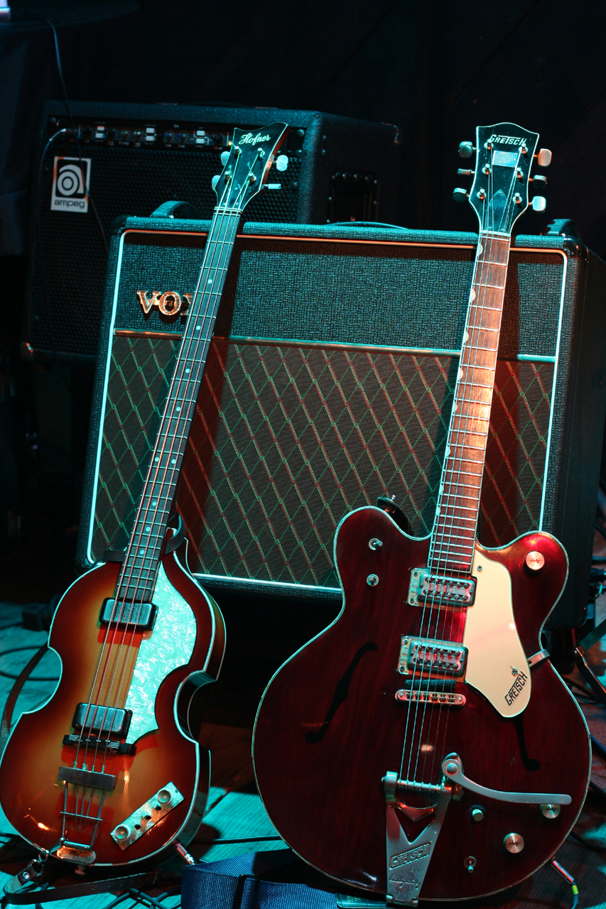 Two guitars propped up against a small Vox amplifier